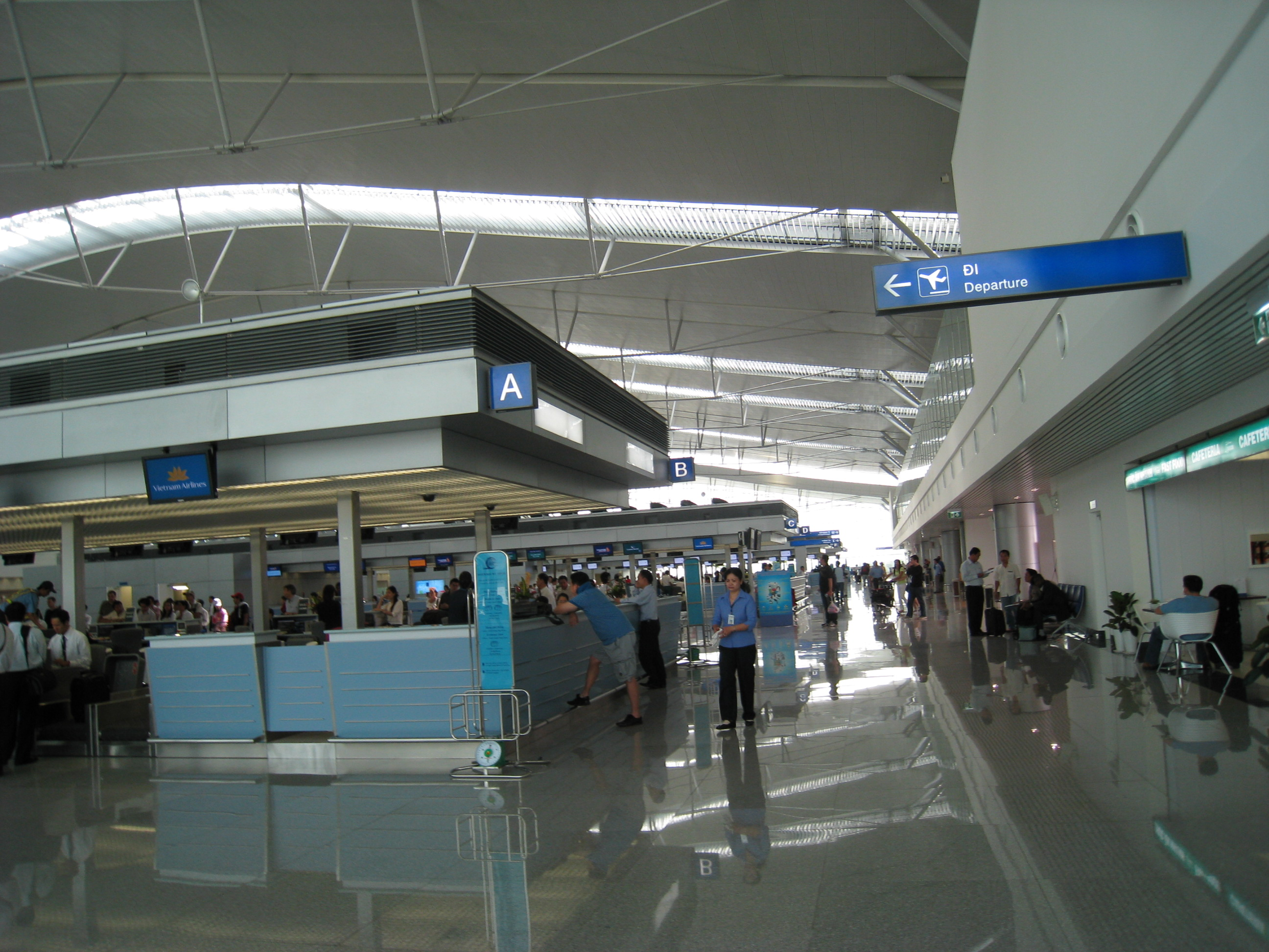 Check-in counters at Tan Son Nhat International Terminal